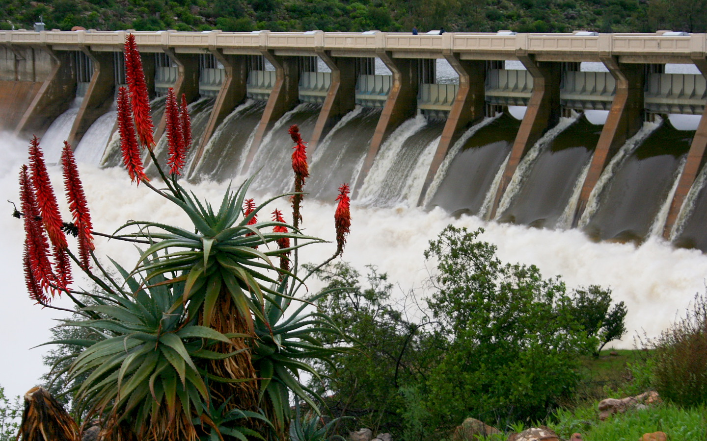 Clanwilliam Dam Overflowing: 7 Jul 2008